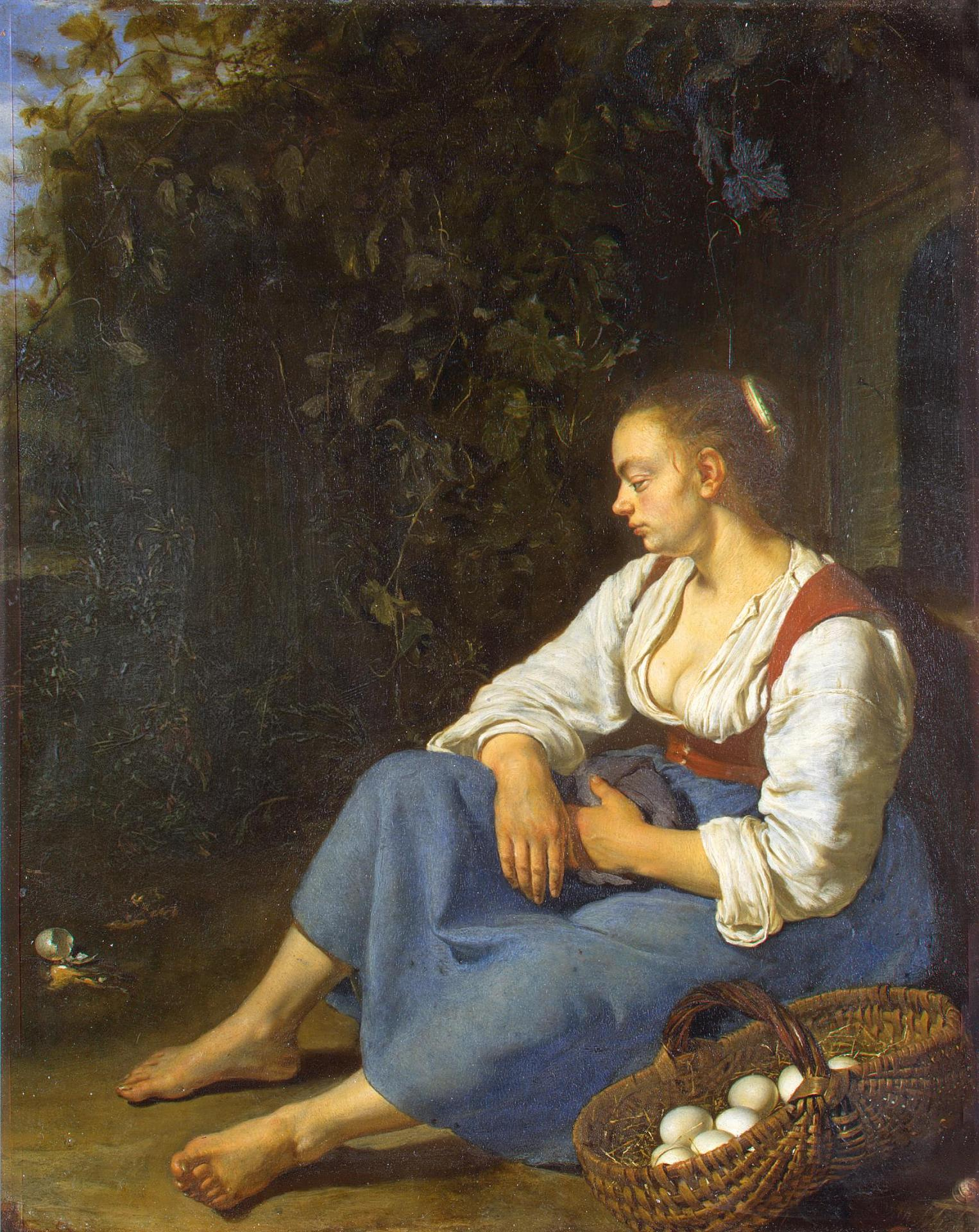 This image is available from the Netherlands Institute for Art Historyunder digital ID 255839. This tag does not indicate the copyright status of the attached work. A normal copyright tag is still required. See Commons:Licensing.